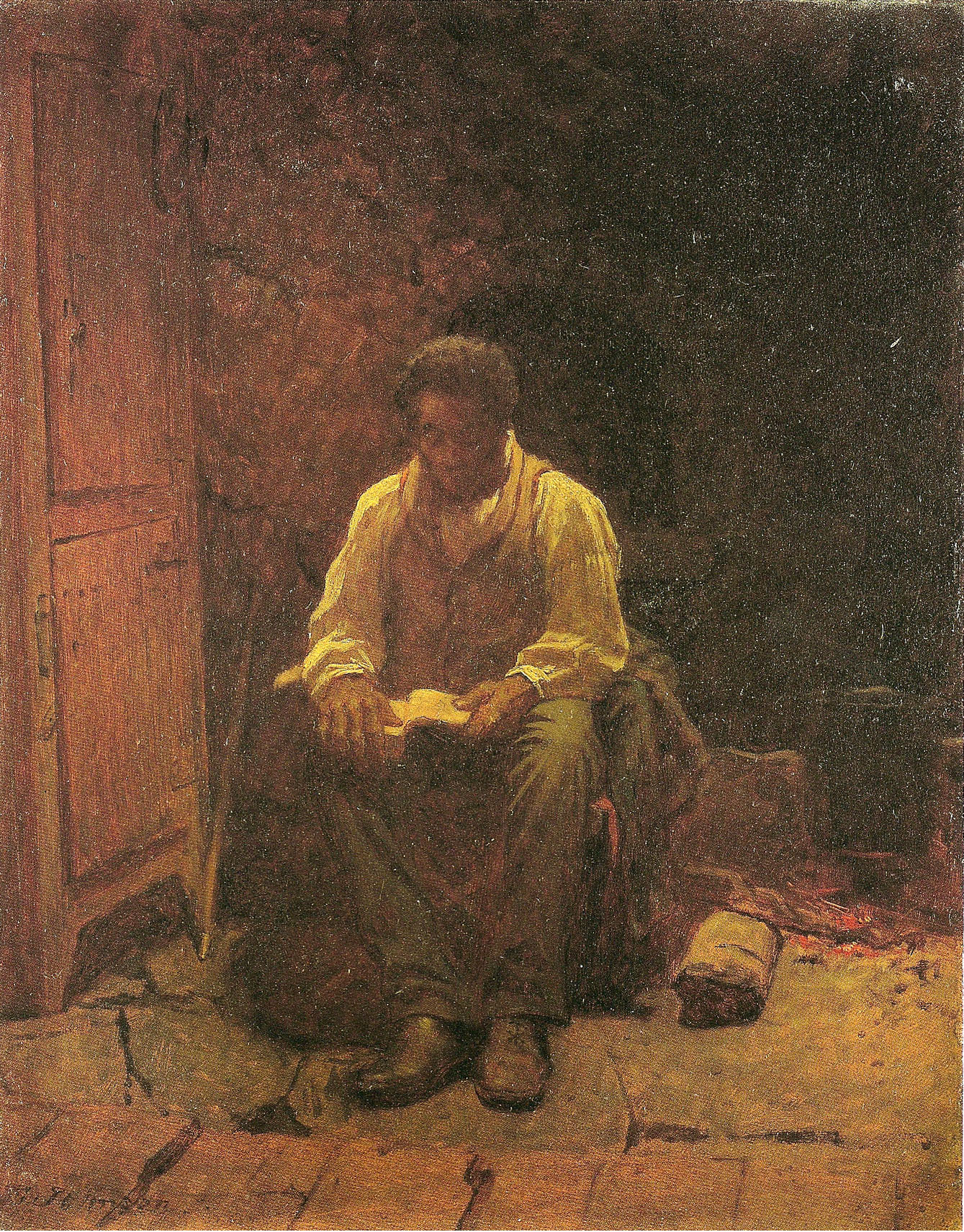 Eastman Johnson - The Lord is my Shepard - Oil on wood -16.625 x 13.125 in - c 1863 - Scanned from Eastman Johnson: Painting America - fig 76 pg 141